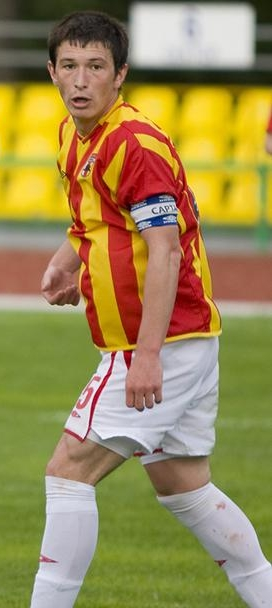 Kamalutdin Akhmedov in action for FC Alania